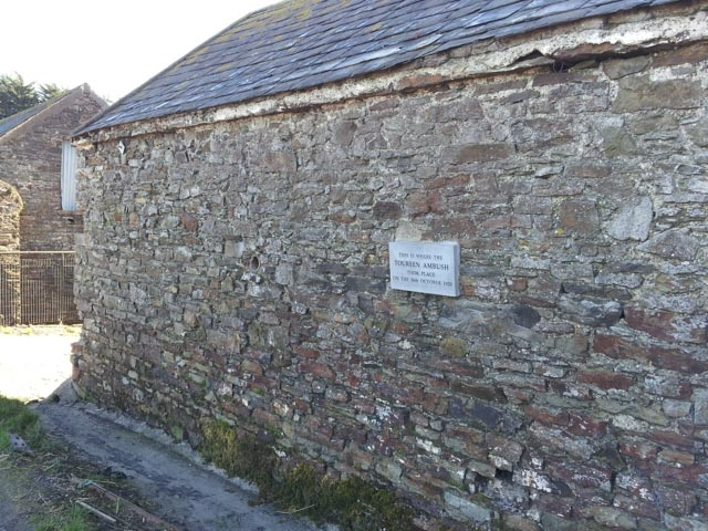 Farm Wall showing plaque